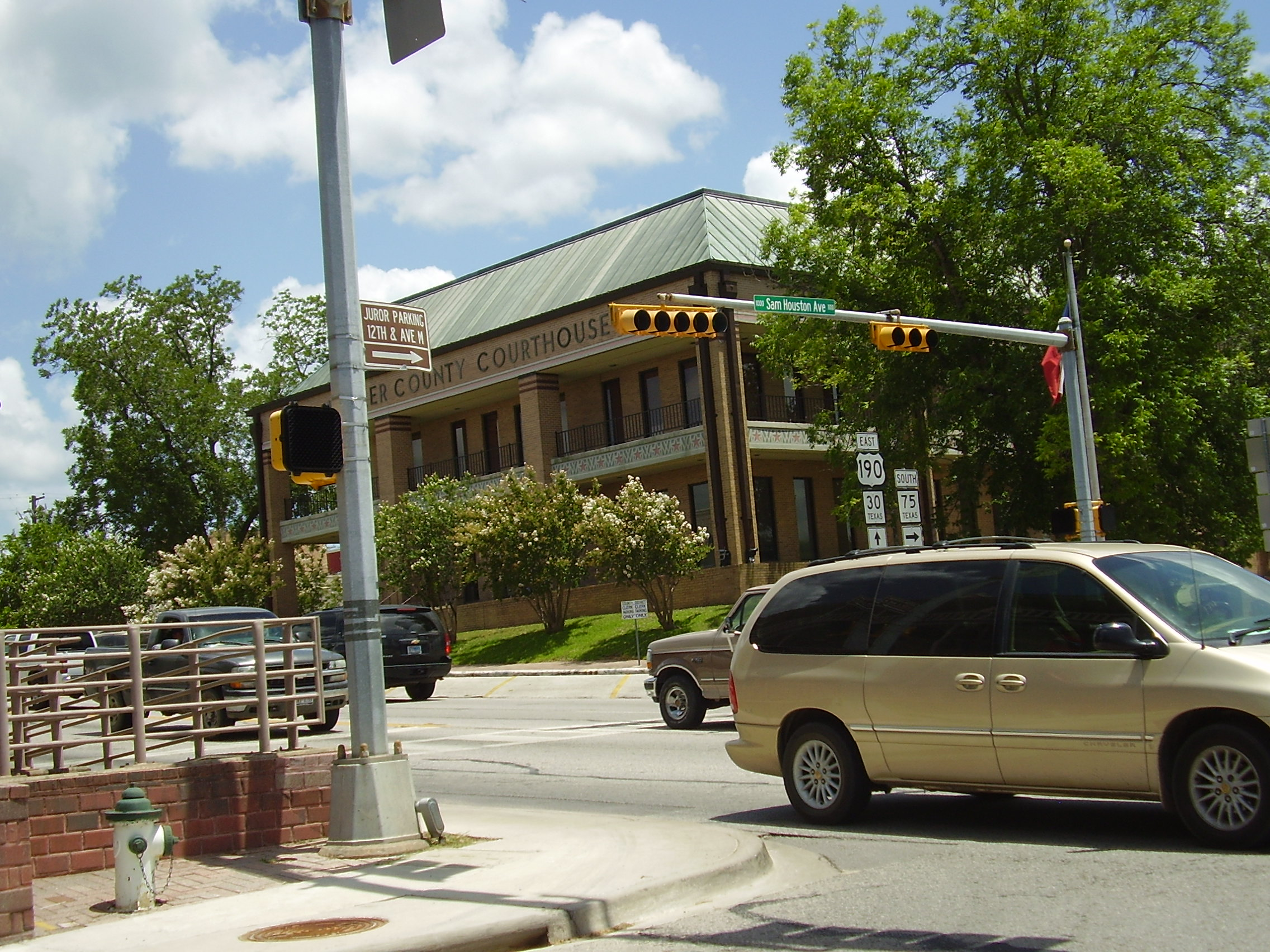 Walker County Courthouse